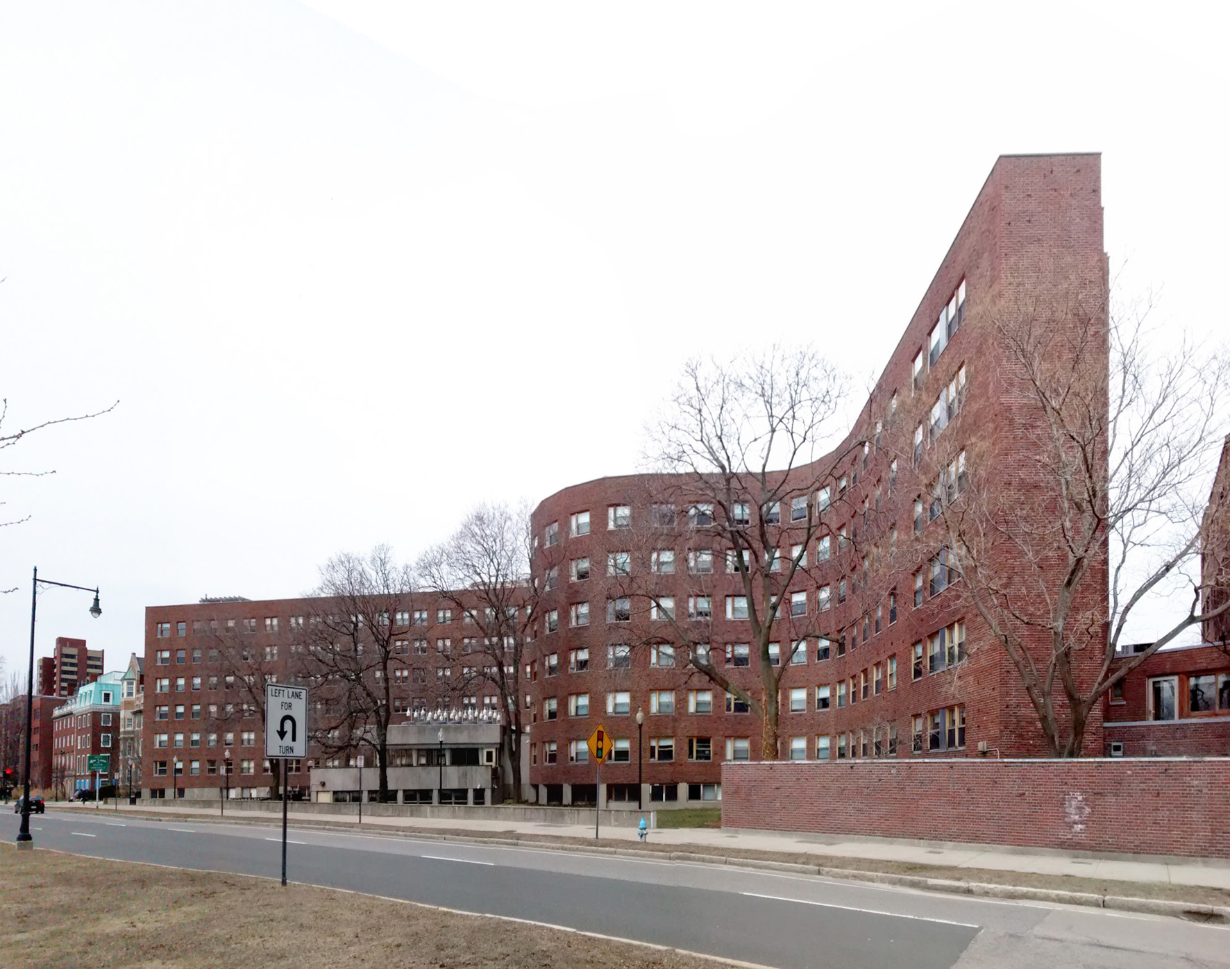 MIT Baker House Dormitory, 1946–1949, Alvar Aalto, Massachusetts Institute of Technology, Memorial Drive, Cambridge, Massachusetts